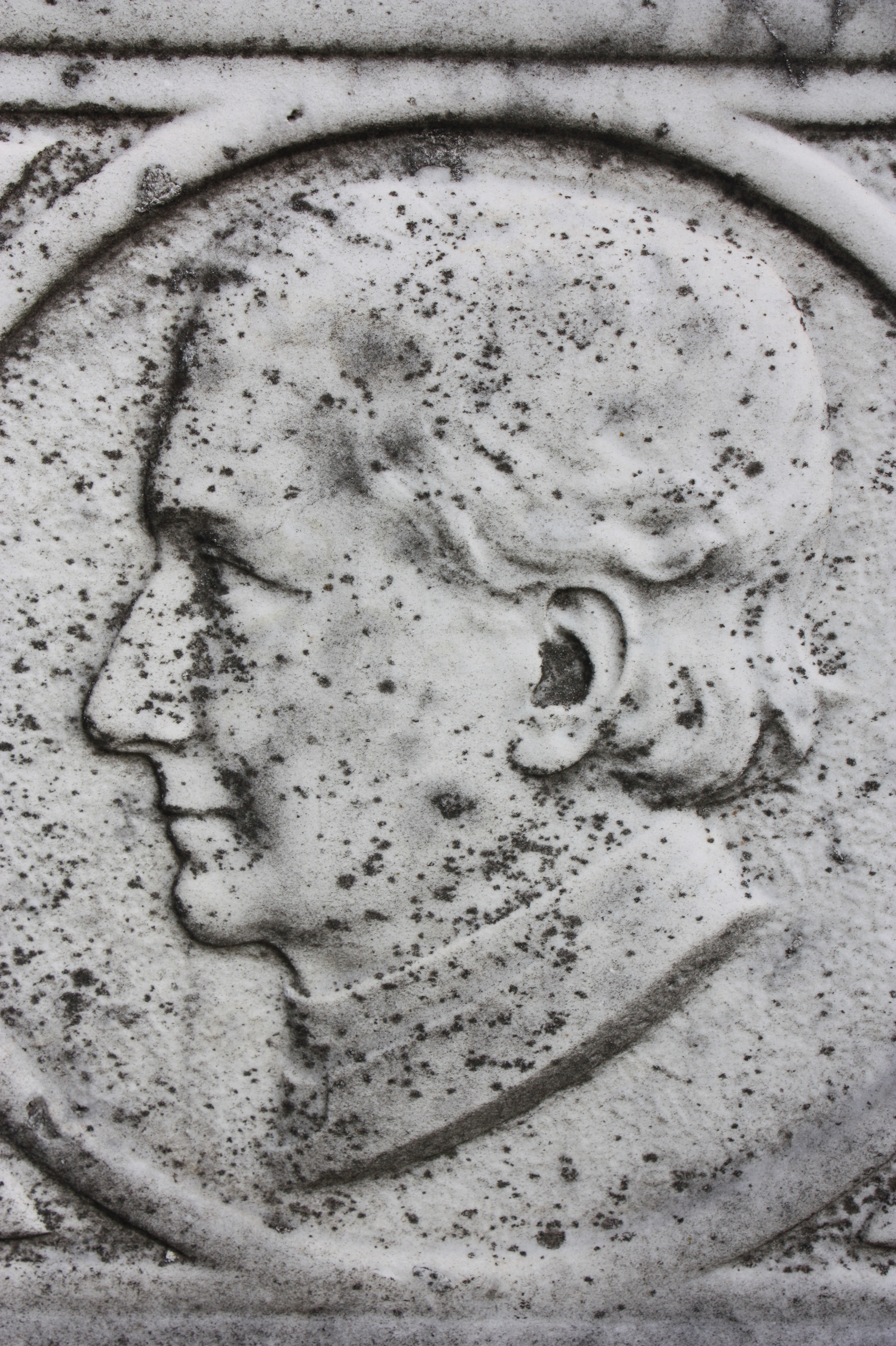 Edward Joseph Hannan as appearing on his grave